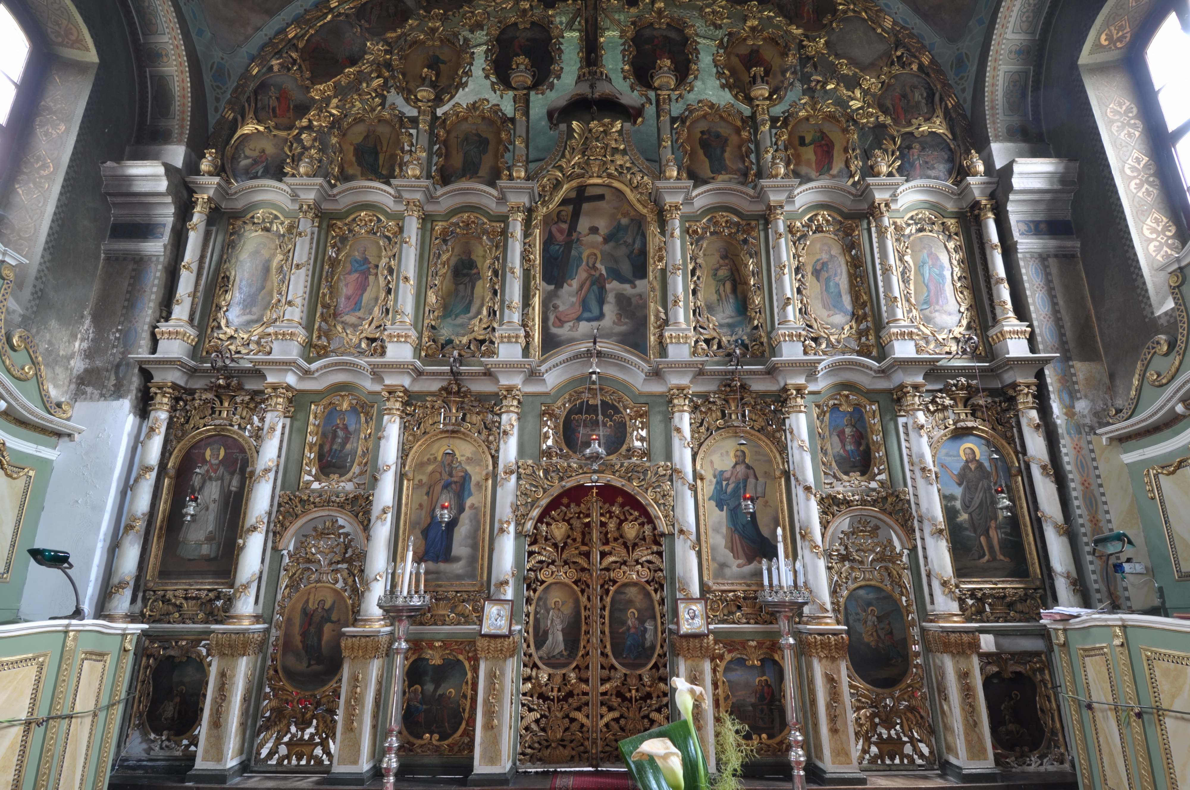 Serbian Orthodox church of Saint Nicholas in Novi Bečej - iconostasis